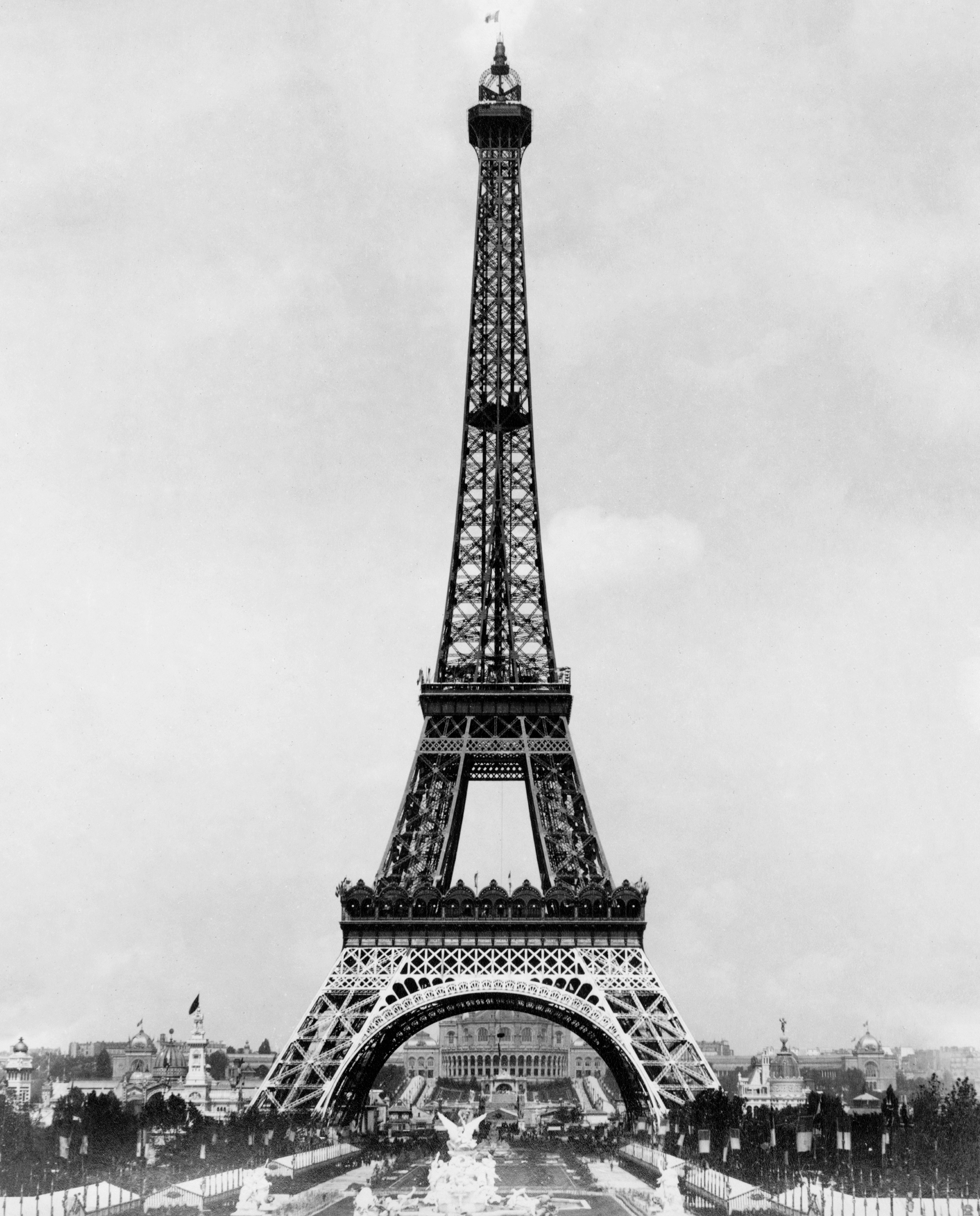 Eiffel Tower and Fountain Coutan, looking toward Trocadéro Palace, Paris Exposition, 1889.